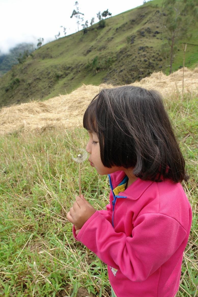 Girl blowing a dandelion fruit Taraxacum officinale in to a wheat cultivation; Suratá, Santander, Colombia.